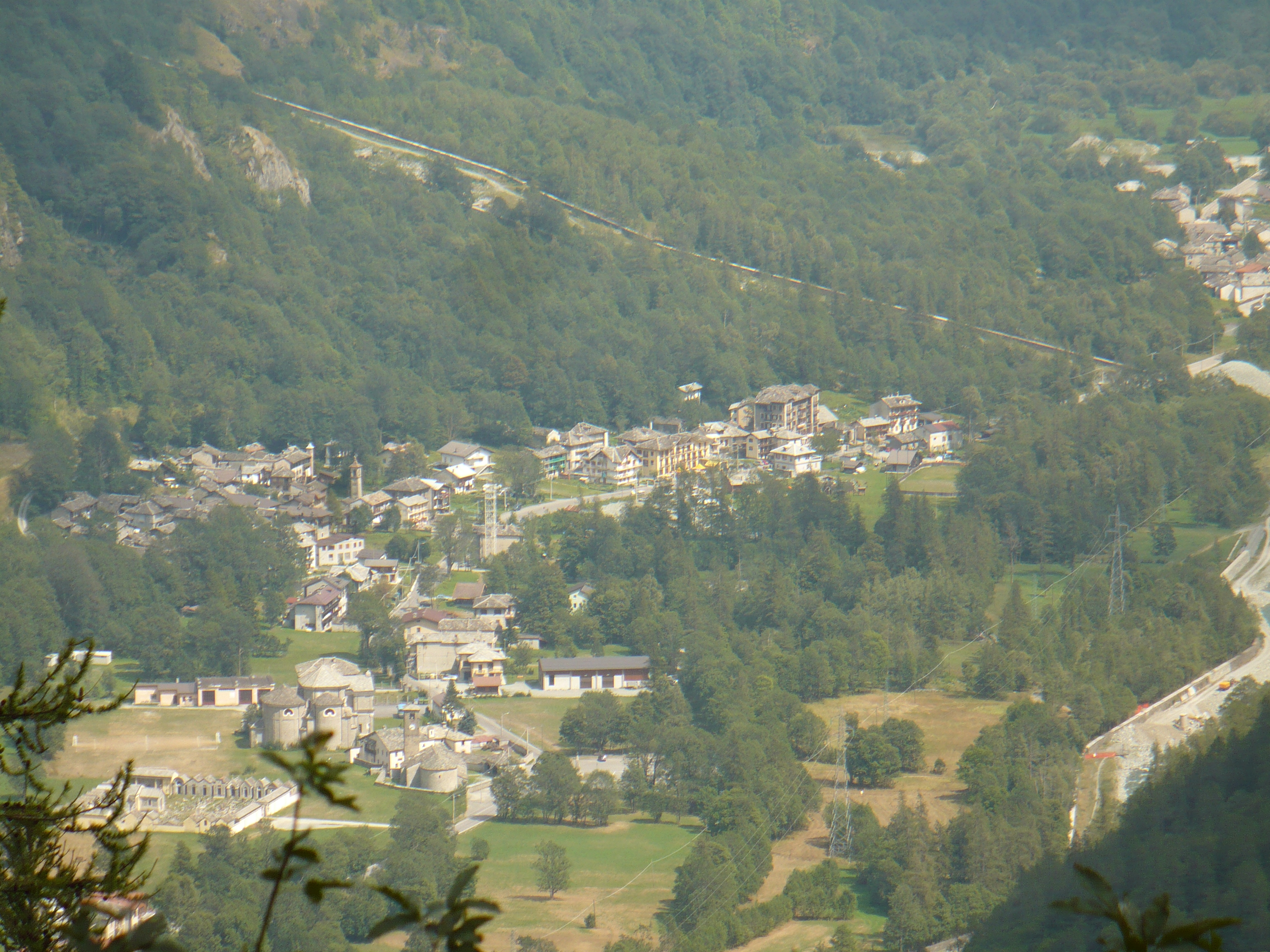 Usseglio - Viù valley - Province of Turin - Italy